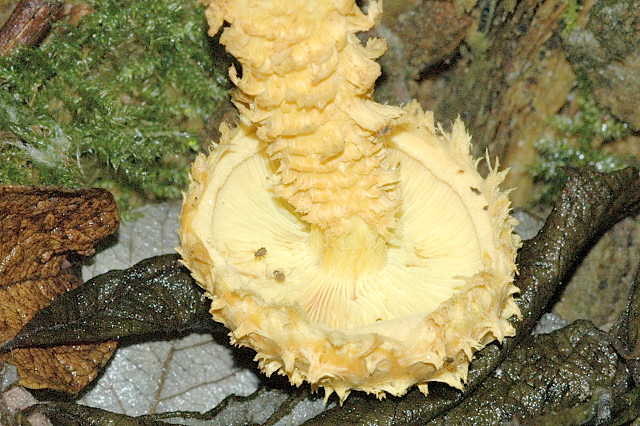 Pholiota flammans from Commanster, Belgium. The determination of the species shown in this picture has been verified.